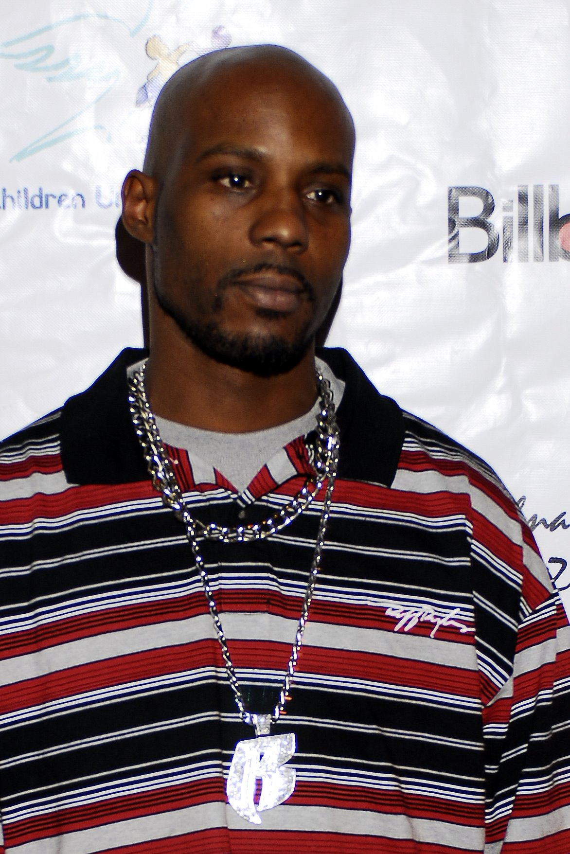 DMX at the 79th Annual Academy Awards Children Uniting Nations/Billboard afterparty.